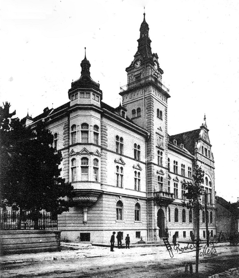 The Administrative Palace in Suceava. During the interwar period the building served as Suceava Town Hall.